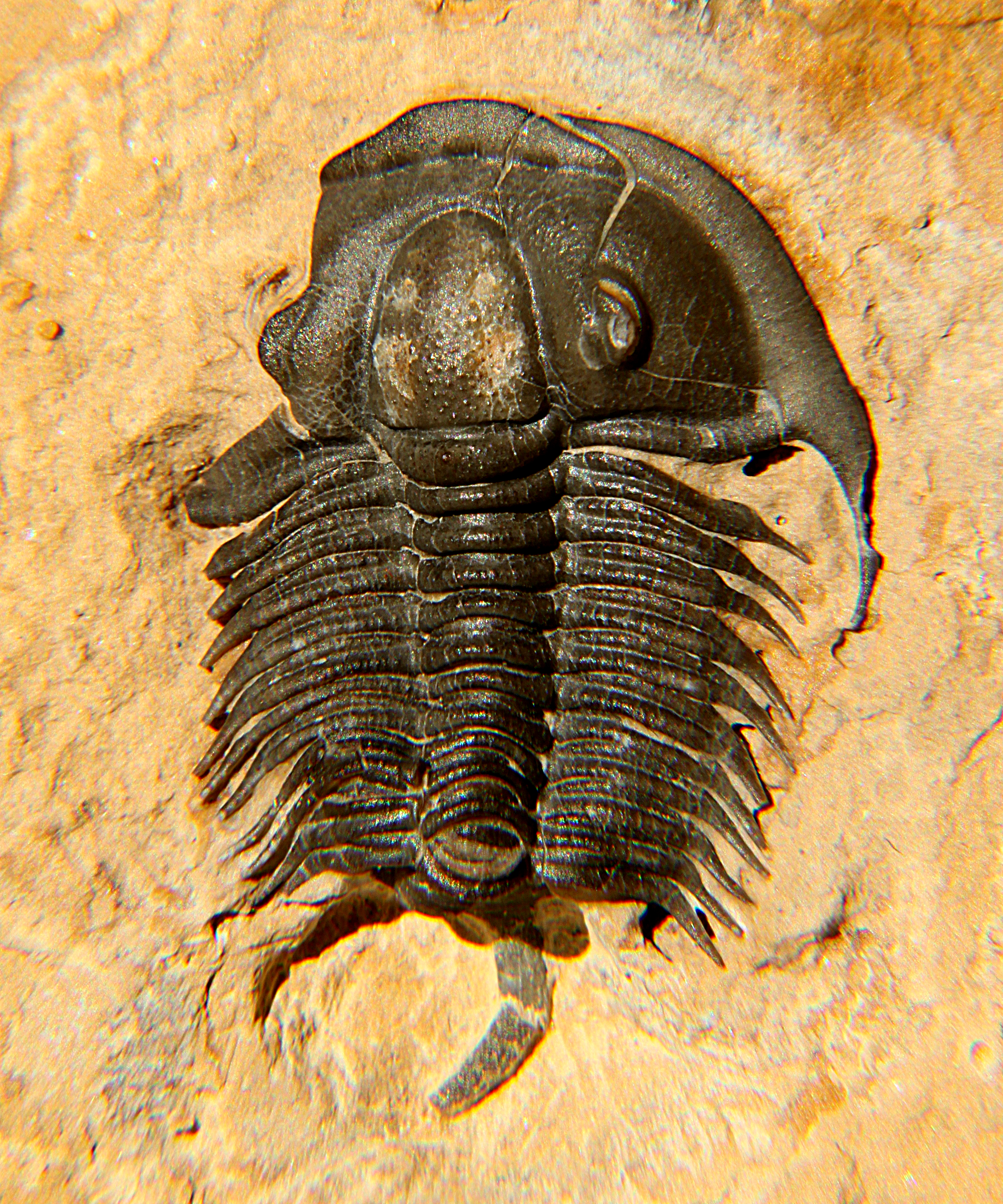 A Tricrepicephalus texanus trilobite, 19mm, Order Ptychopariida, Family Tricrepicephalidae, collected from the Weeks Formation, Millard County, Utah, USA, from the Middle Cambrian